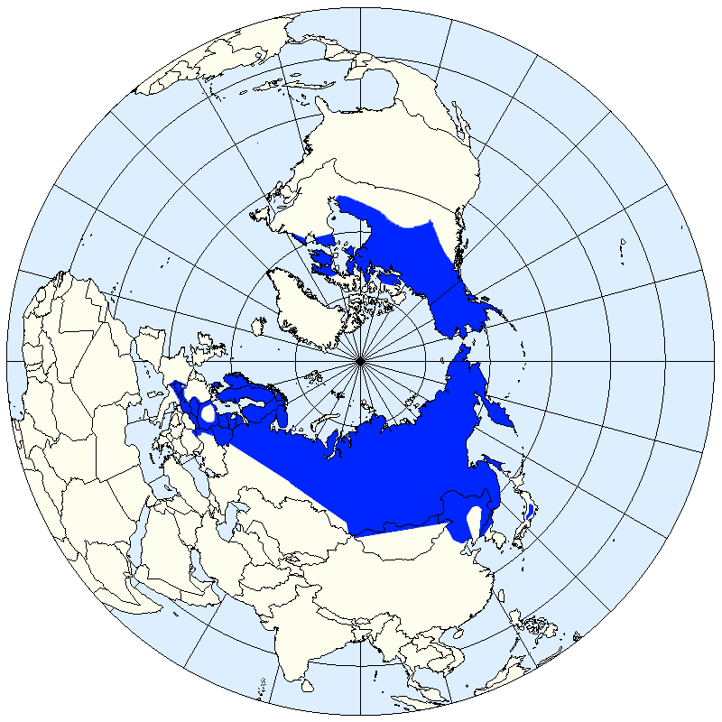 Distribution map of the Moorland Clouded Yellow, Palaeno Sulphur, or Pale Arctic Clouded Yellow (Colias palaeno) North america is based on: James A. Scott: The butterflies of North America Stanford University Press, 1986, Seite 200, ISBN 0-8047-1205-0 Eurasia is based on: Josef Grieshuber, Bob Worthy, Gerardo Lamas: The Genus Colias Fabricius, 1807 - Jan Haugum's Annotated Catalogue of the Old World Colias (Lepidoptera, Pieridae) Tshikolovets Publications, Pardubice, 2012, Seite , ISBN 78-80-904900 Invalid ISBN-2-4